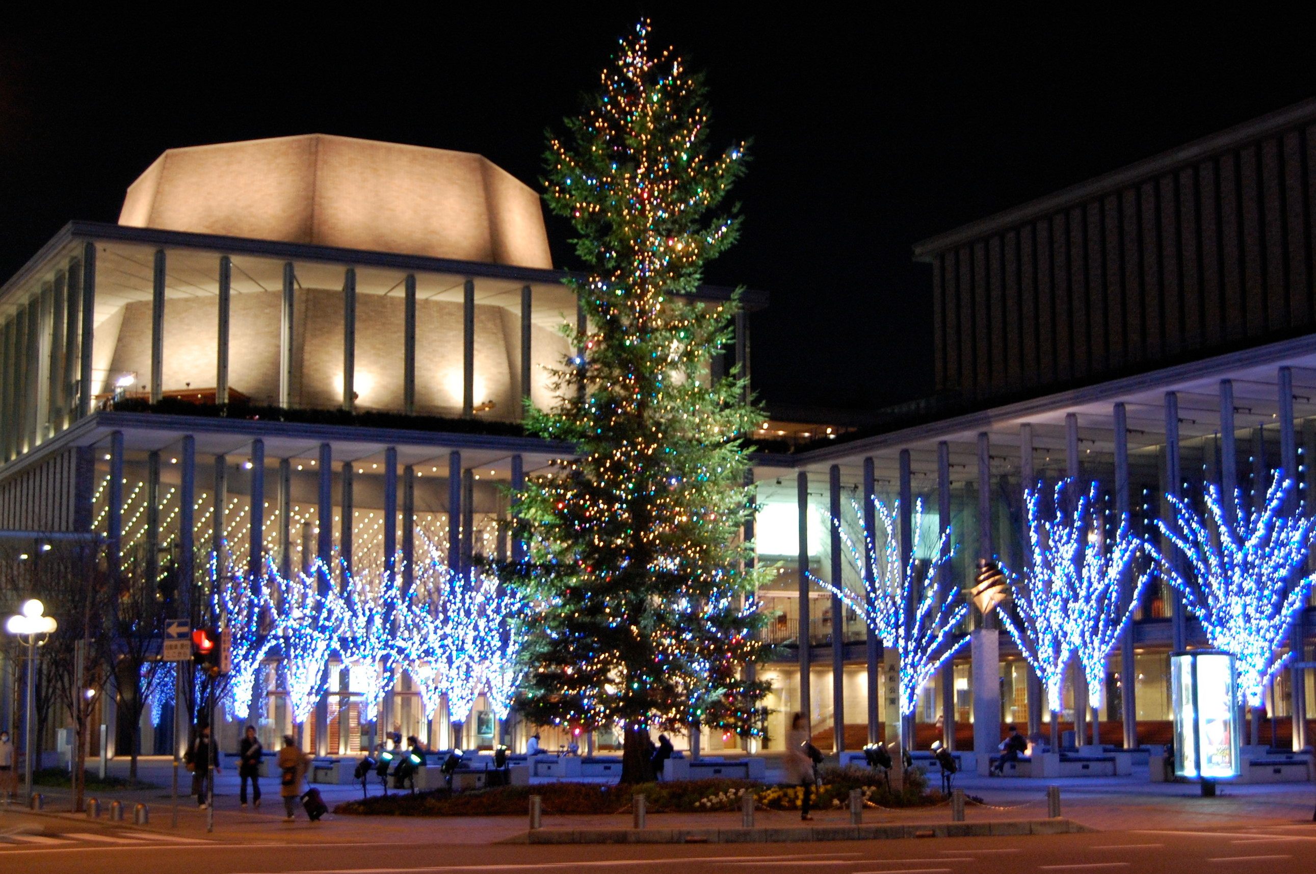 Hyogo Performing Arts Center, at night. Winter.